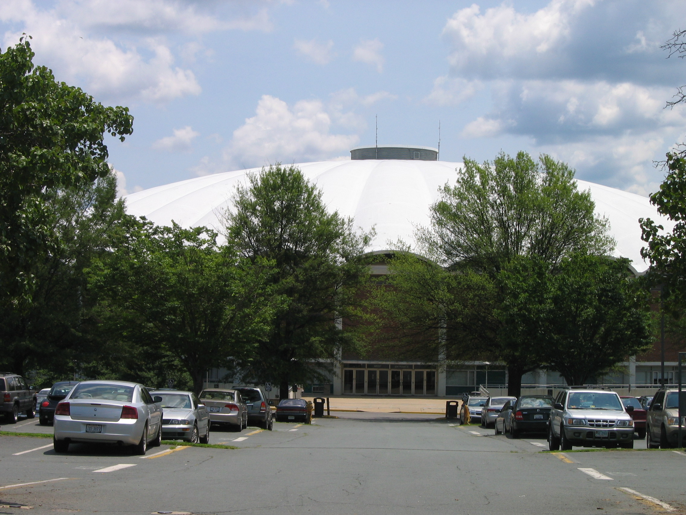 Football & Basketball Facilities U Virginia Arena